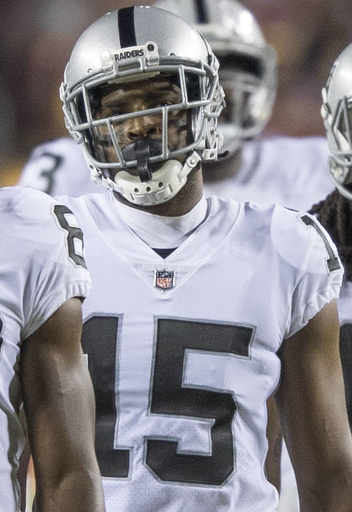 Oakland Raiders wide receivers, Amari Cooper, Michael Crabtree, and Seth Roberts, during a game against the Washington Redskins on September 24, 2017.